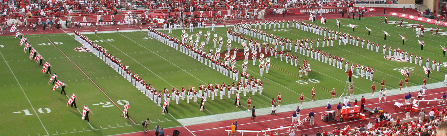 University of Arkansas Razorback Marching Band at Razorback Stadium, Fayetteville, Arkansas.